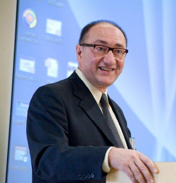 Kaveh Pahlavan profile picture taken at location workshop.